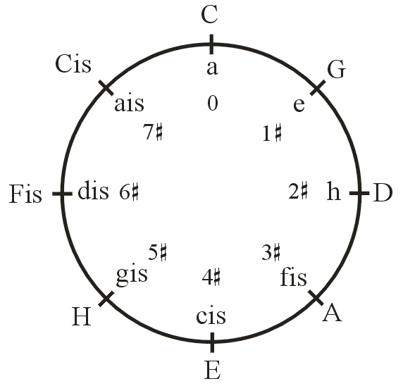 Circle of fifths